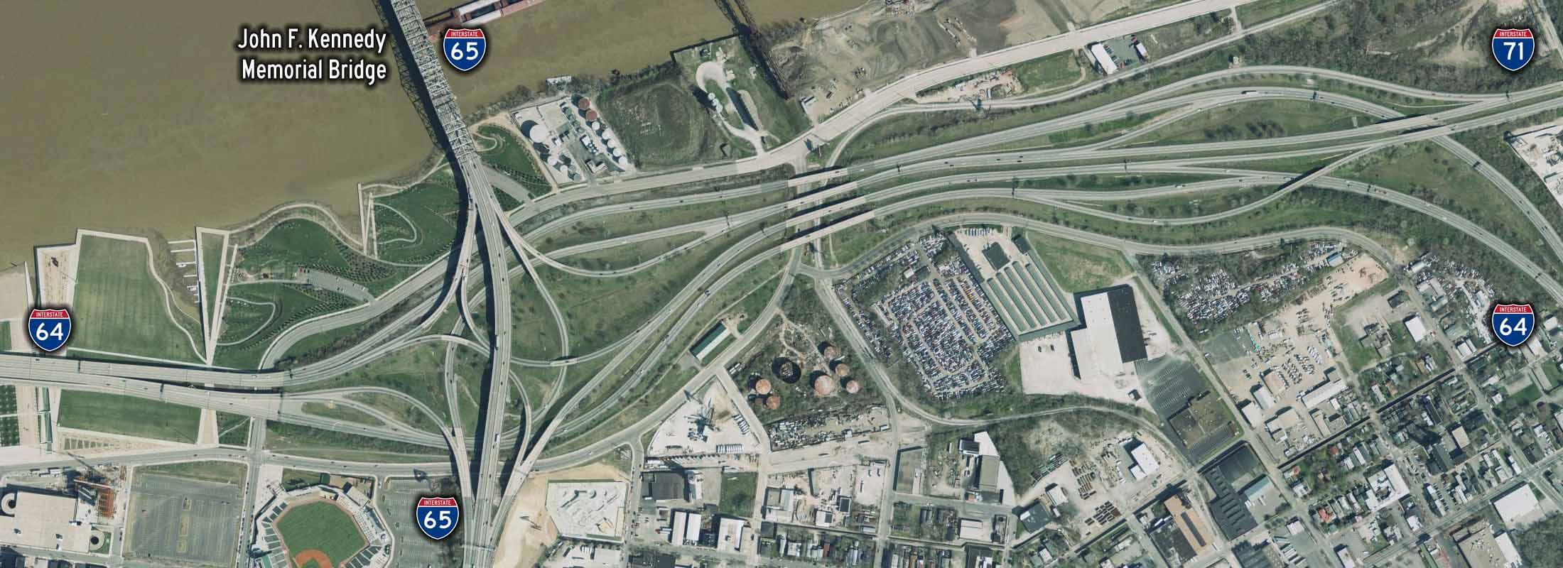 A photo diagram of the Kennedy Interchange, depicting routes and the Kennedy Bridge